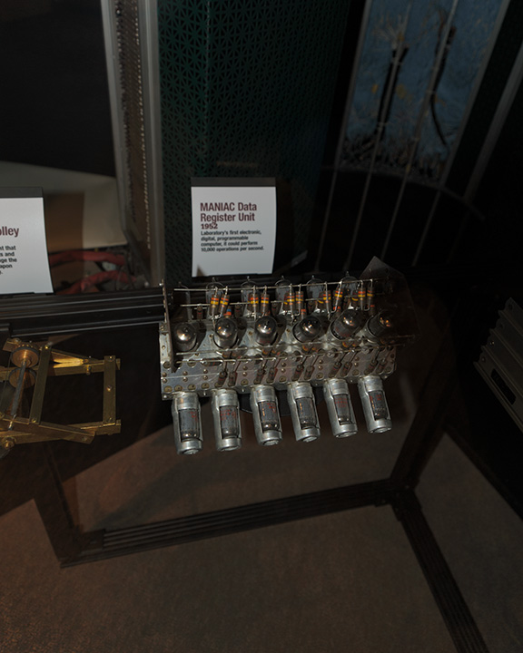 This is a piece of computer hardware developed in the early 1950s by scientists at Los Alamos. Computers use registers to do arithmetic, and this particular computer, called MANIAC from the acronym of its full name, could do thousands of operations per second. The latest computers at Los Alamos can do trillions of operations a second. This is part of an exhibit in the Bradbury Science Museum dedicated to computing at Los Alamos and showing how computers have evolved over the years.